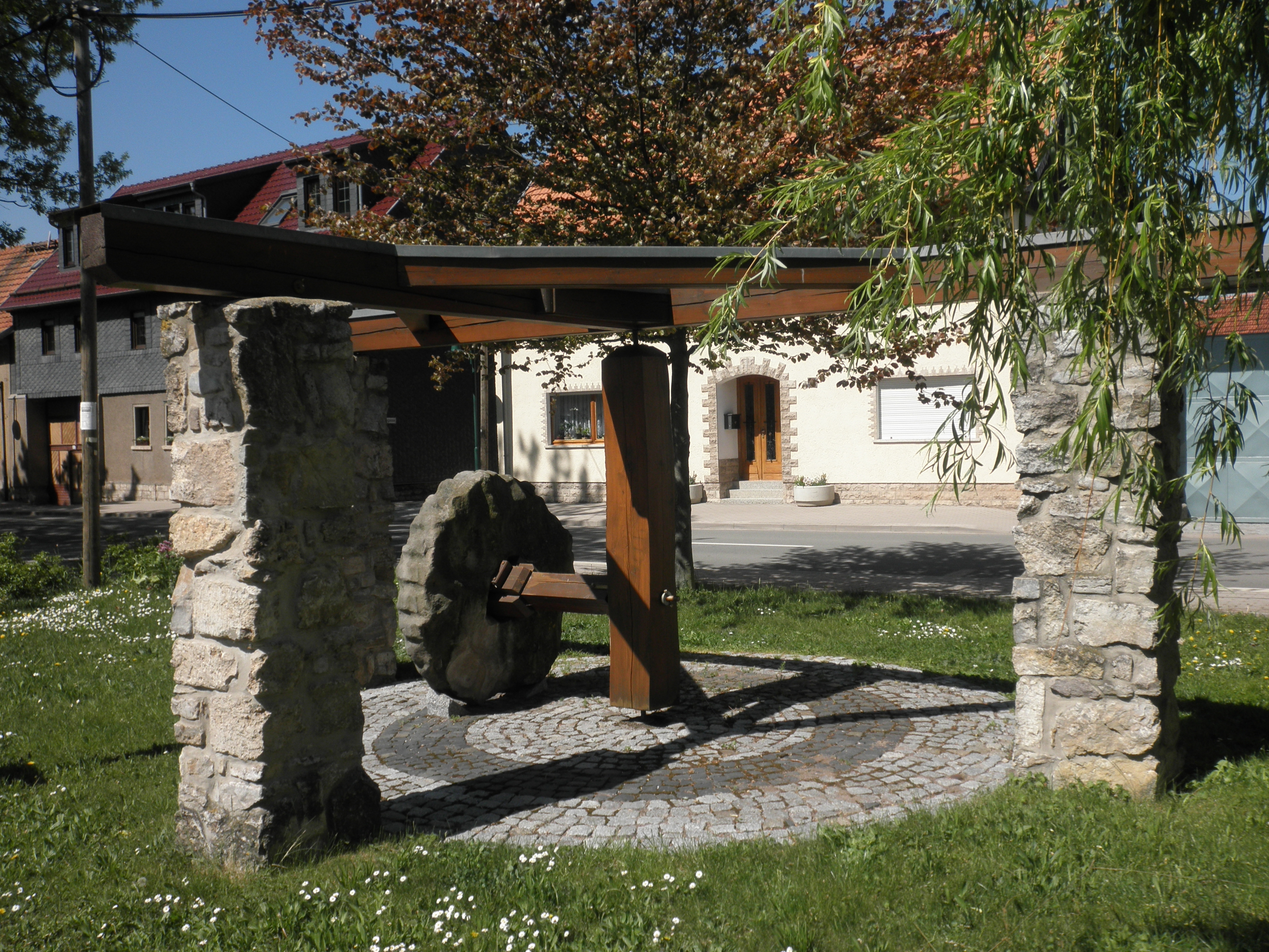 Millstone for Waid (dye plant) in Großmölsen in Thuringia